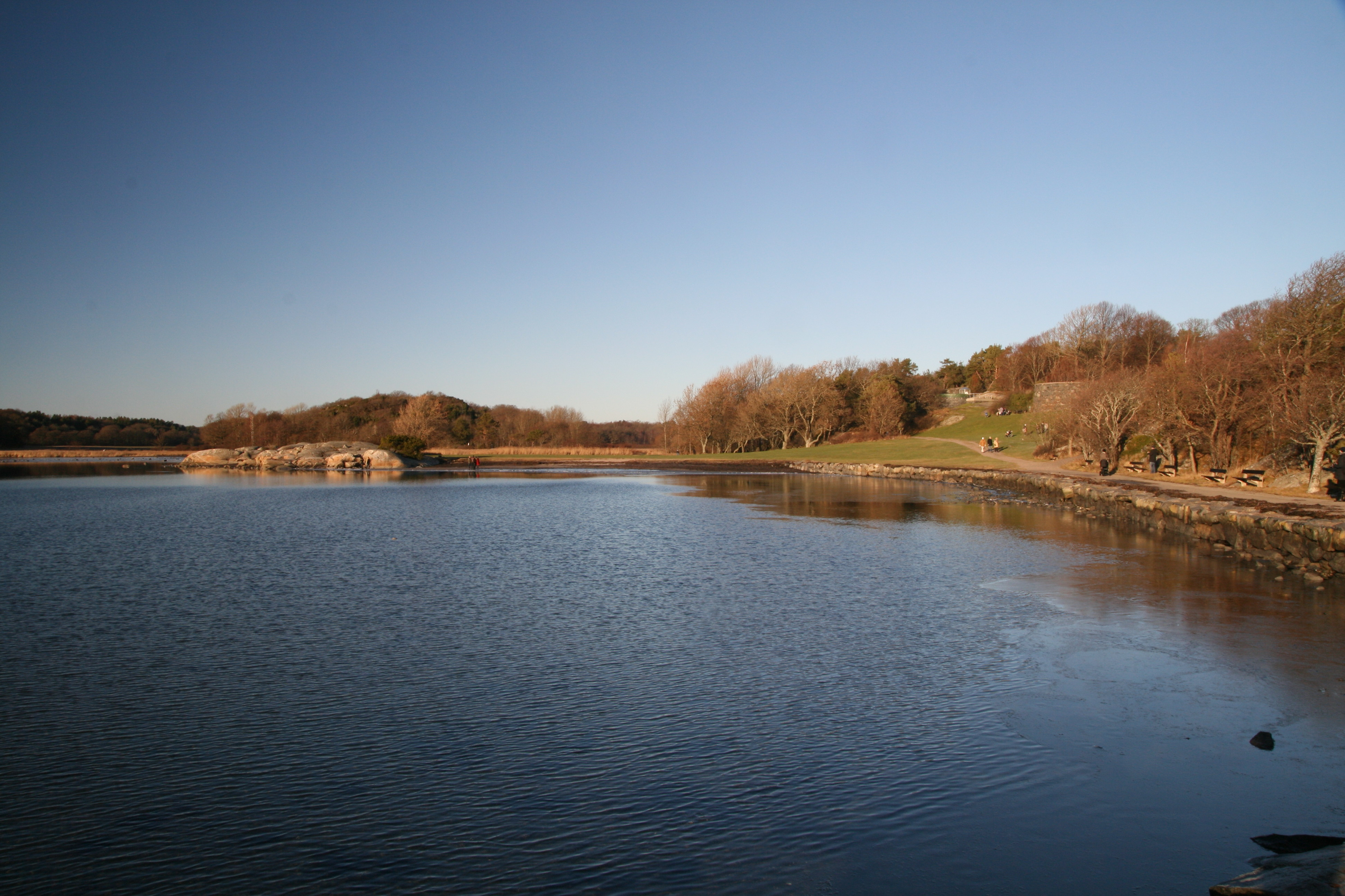 The shoreline of the fjord of Kungsbacka, close to the castle of Tjolöholm, south of Kungsbacka, Sweden. The castle wall can be seen in up the hill to the right.